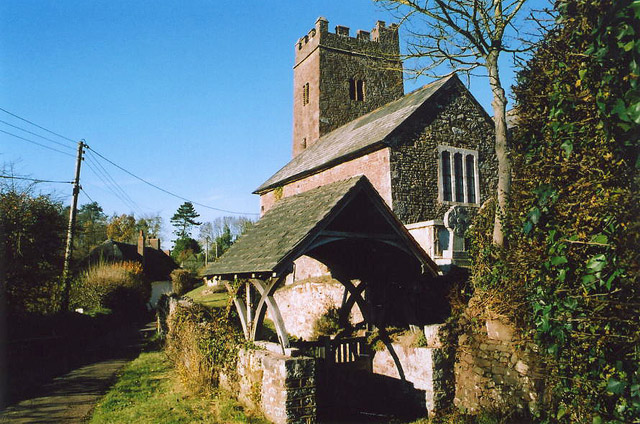 Upton Hellions: church dedicated to St Mary the Virgin. A small and atmospheric church dating from 1170. The south aisle is early 16th century. Beer stone has been used for the window openings